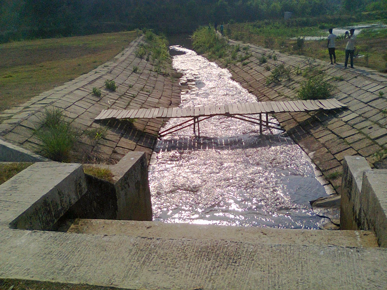 Mohamaya Lake/Project, Mirsarai, Chittagong